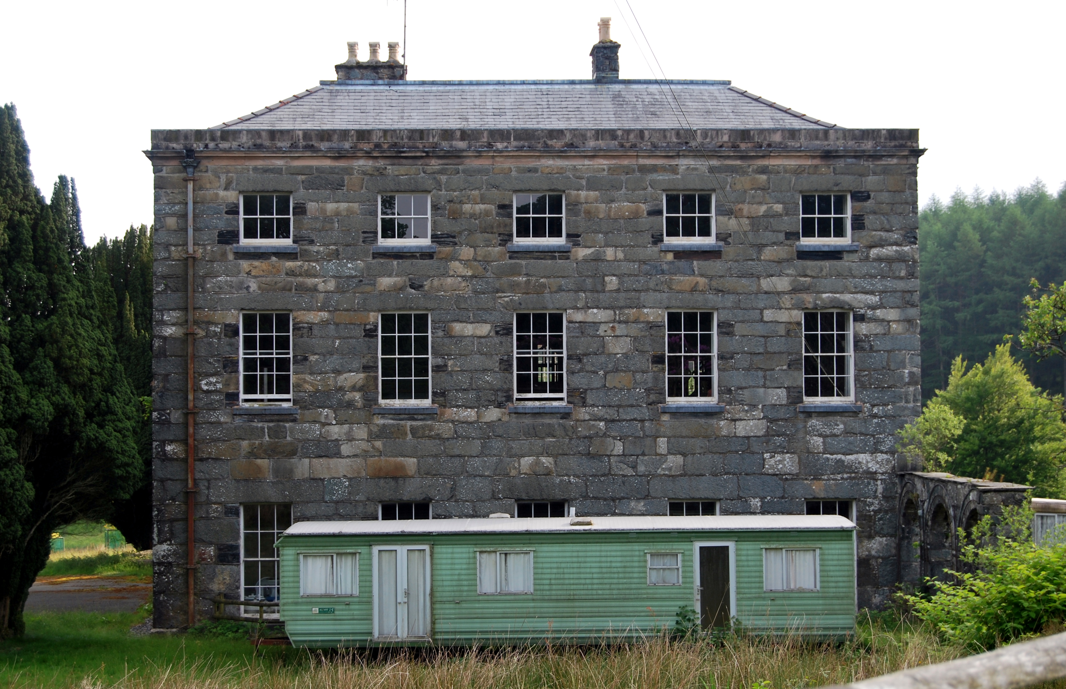 Nannau House, Llanfachreth, Wales 2010 view